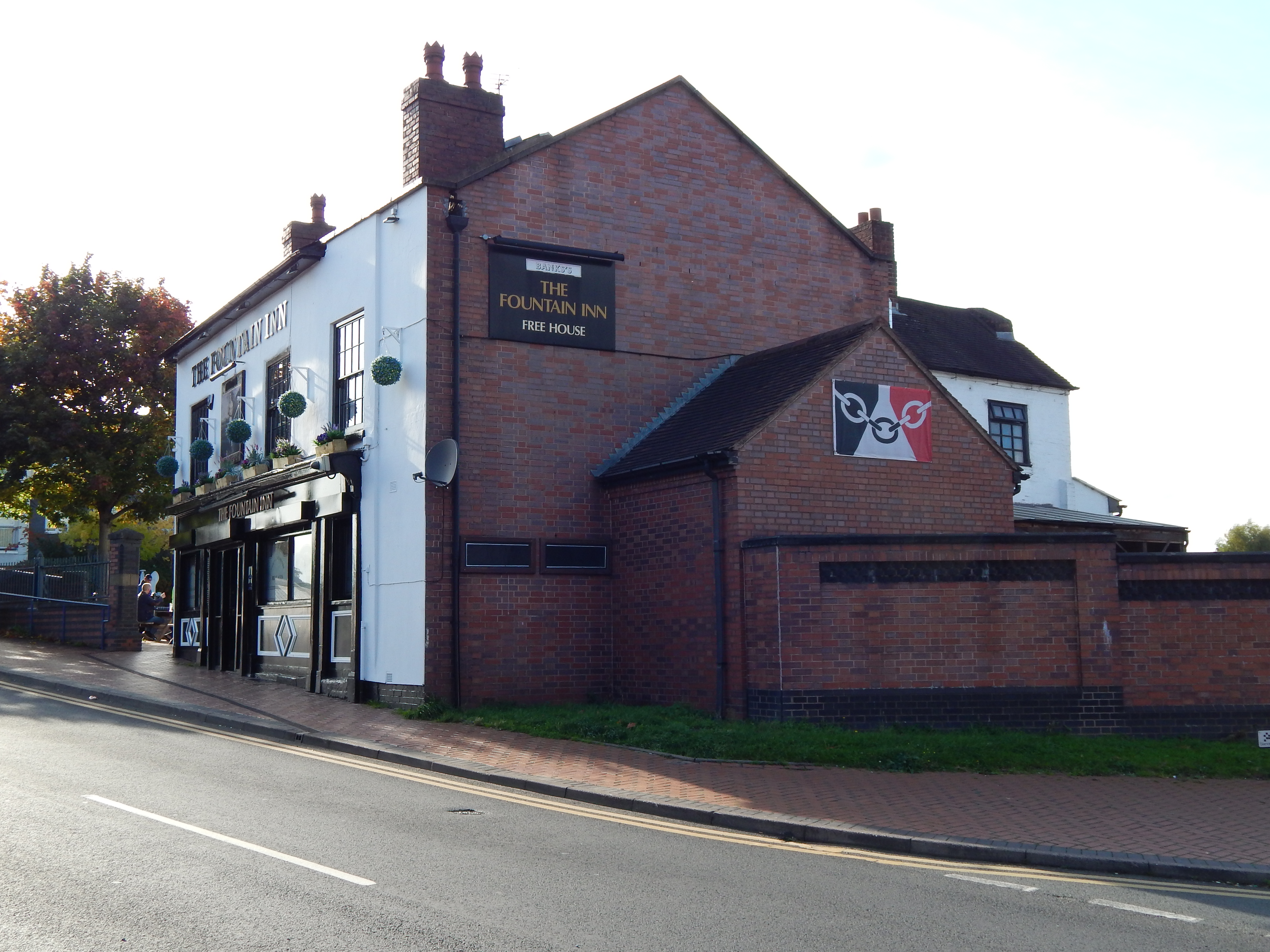 The Fountain Inn Public House Wikidata has entry Q26575720 with data related to this item.